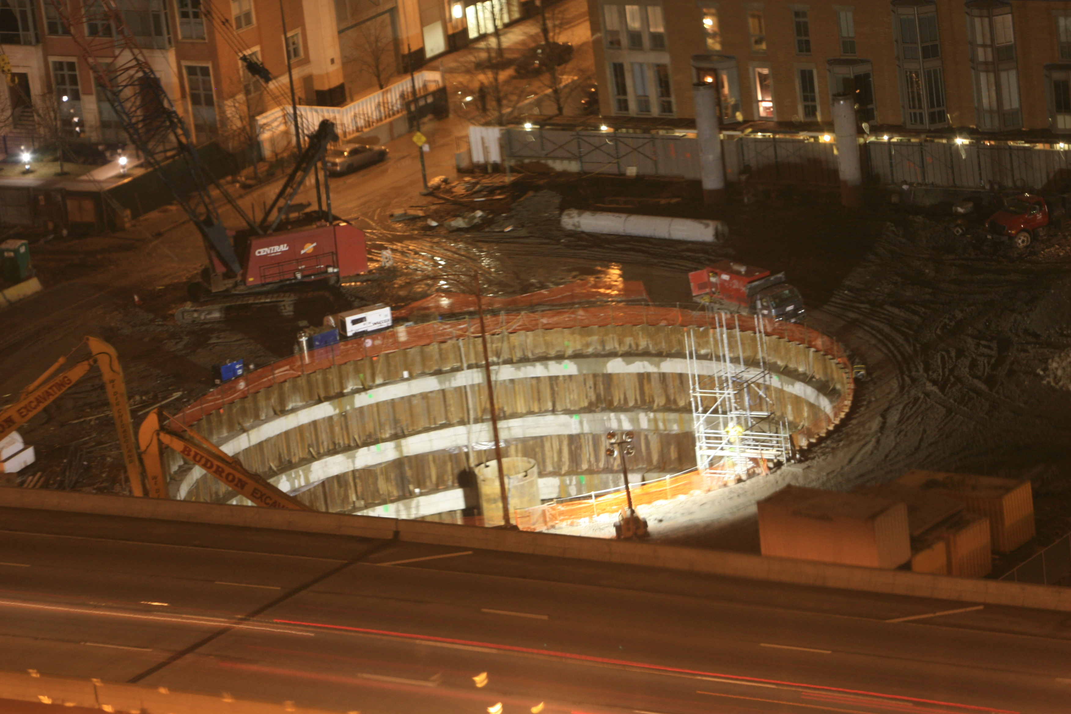 This is a long exposure night shot of the construction site for the Chicago Spire. It was shot from the 28th floor of the Lake Point Tower (which is at the base of the Navy Pier) while I was visiting the city on a pleasure trip.